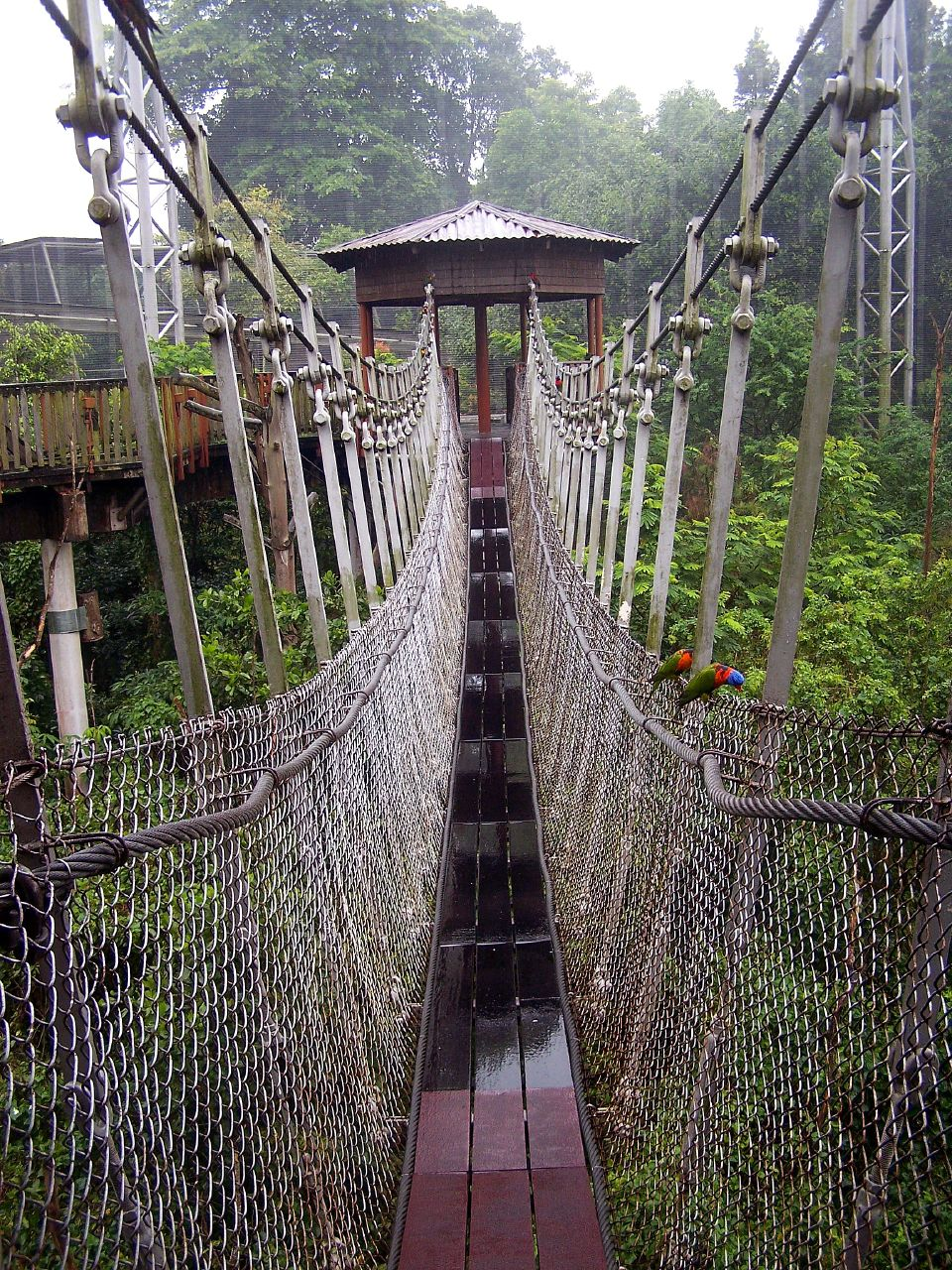 Rope bridge at Jurong BirdPark, Singapore.